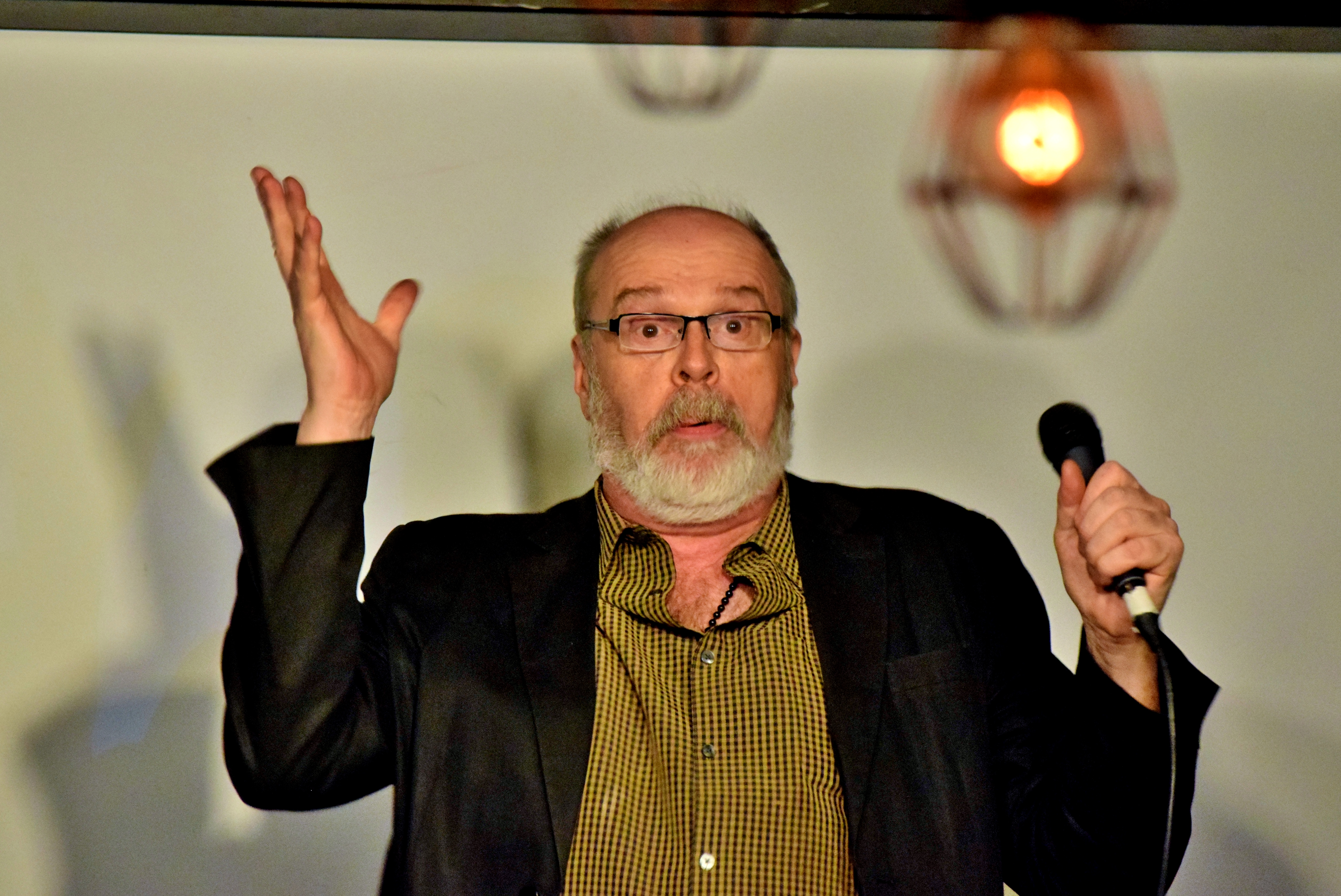 This is a photograph of actor and comedian Rick Overton performing at Nerdist Showroom in Los Angeles on October 26, 2017.